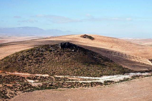 A patch of endangered Renosterveld habitat surrounded by agricultural lands. Typically this vegetation type survives in such islands.